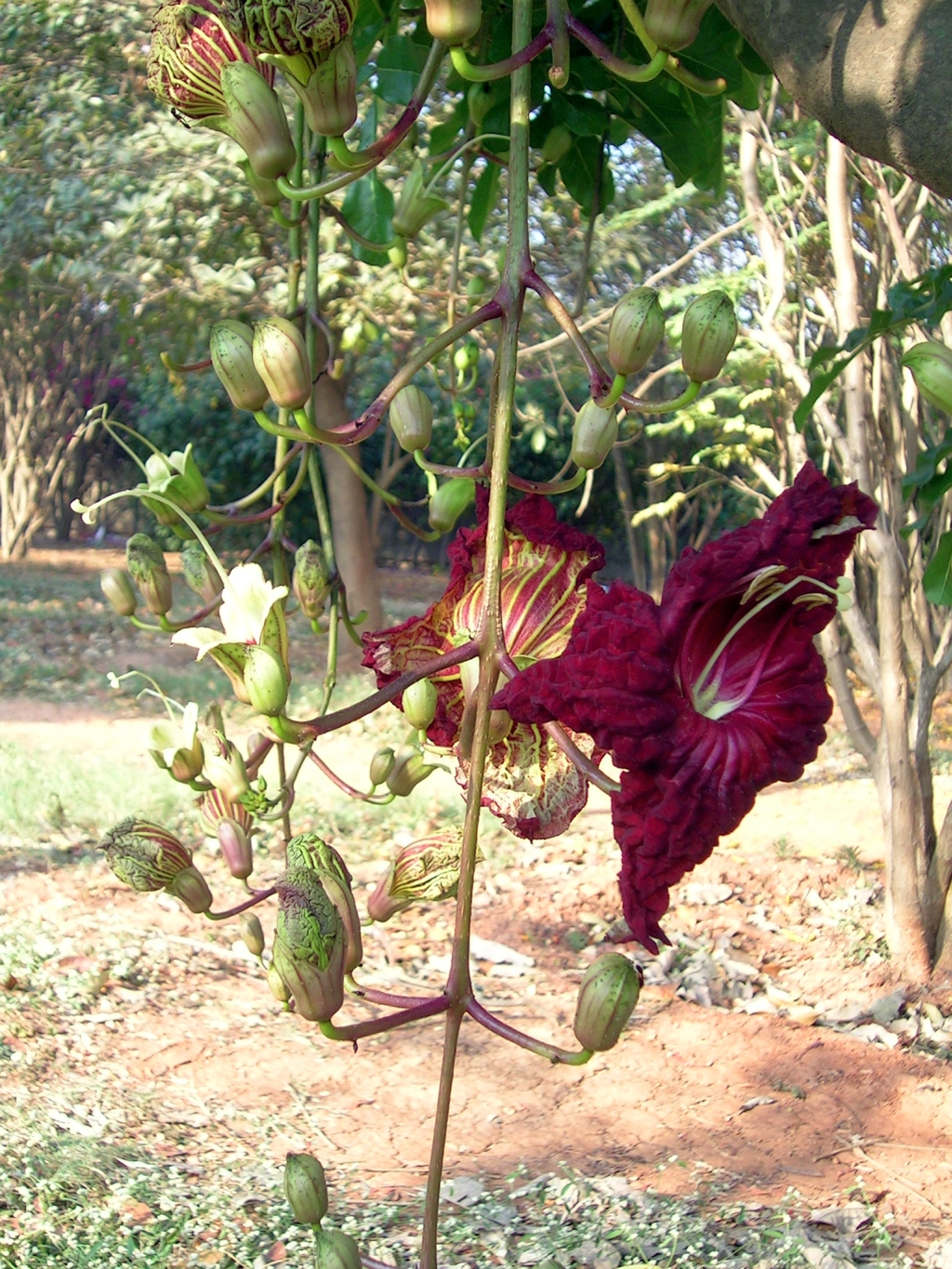 Kigelia africana (syn. K. pinnata) flowers from Hebbal, Bangalore